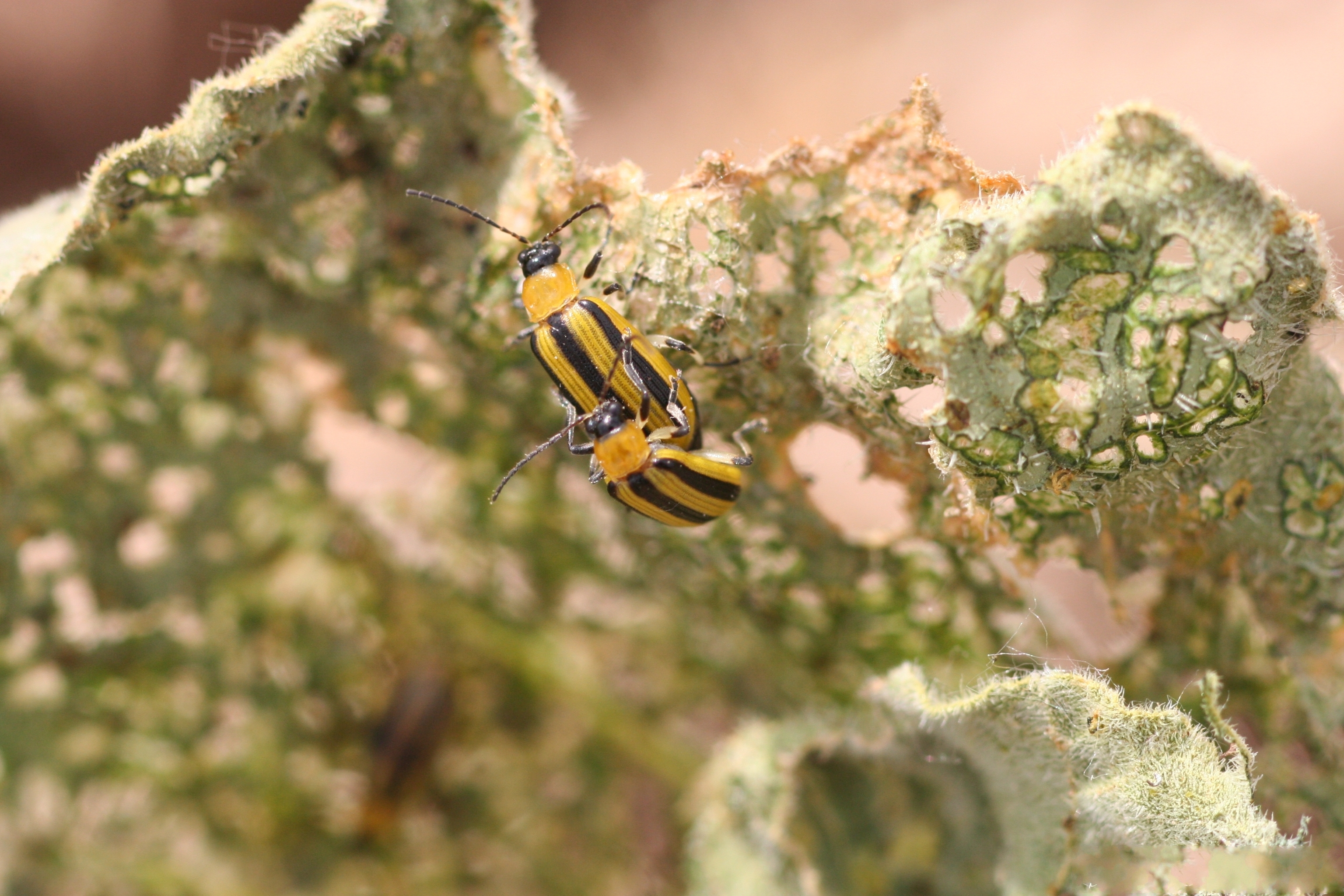 Acalymma vittatum Fabricius Host: pumpkin Cucurbita pepo L. Common Name: striped cucumber beetle Photographer: Whitney Cranshaw, Colorado State University, United States Descriptor: Adult(s) Description: Mating pair Image taken in: United States